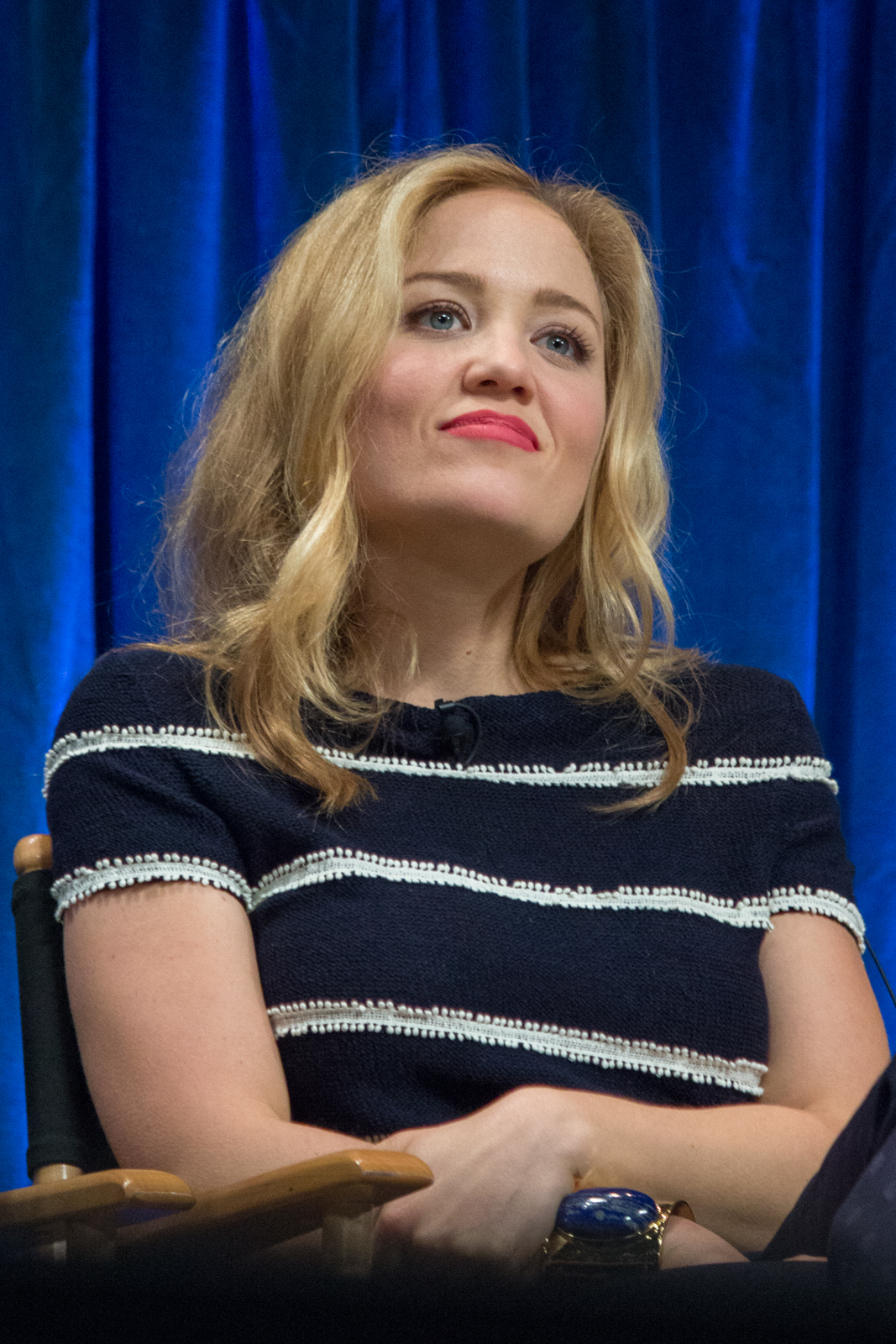 Actress Erika Christensen at PaleyFest 2013's panel for "Parenthood"